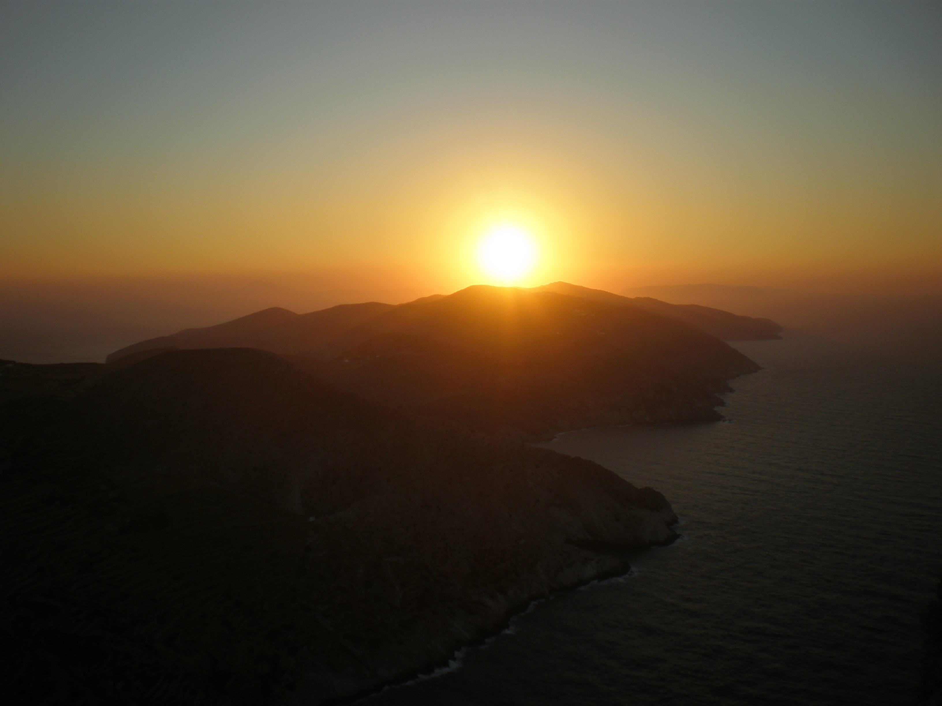 Sunset on Folegandros